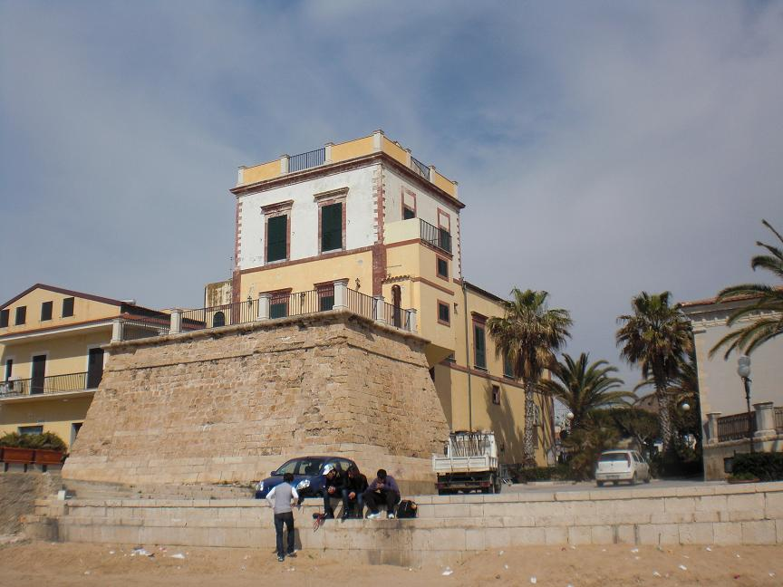 Medieval Tower in Marina di Ragusa, Sicily.